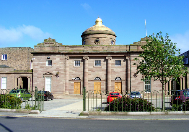 Montrose Academy, Montrose, Angus, Scotland shown from the front.